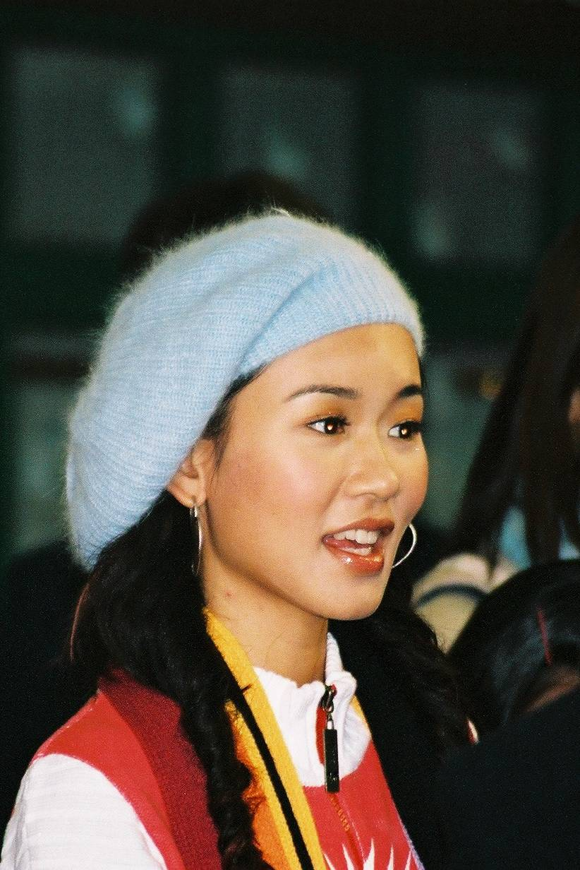 Yeung Sze Kai at a promotion at Wing Yip in London 2004 for Angels of Mission.